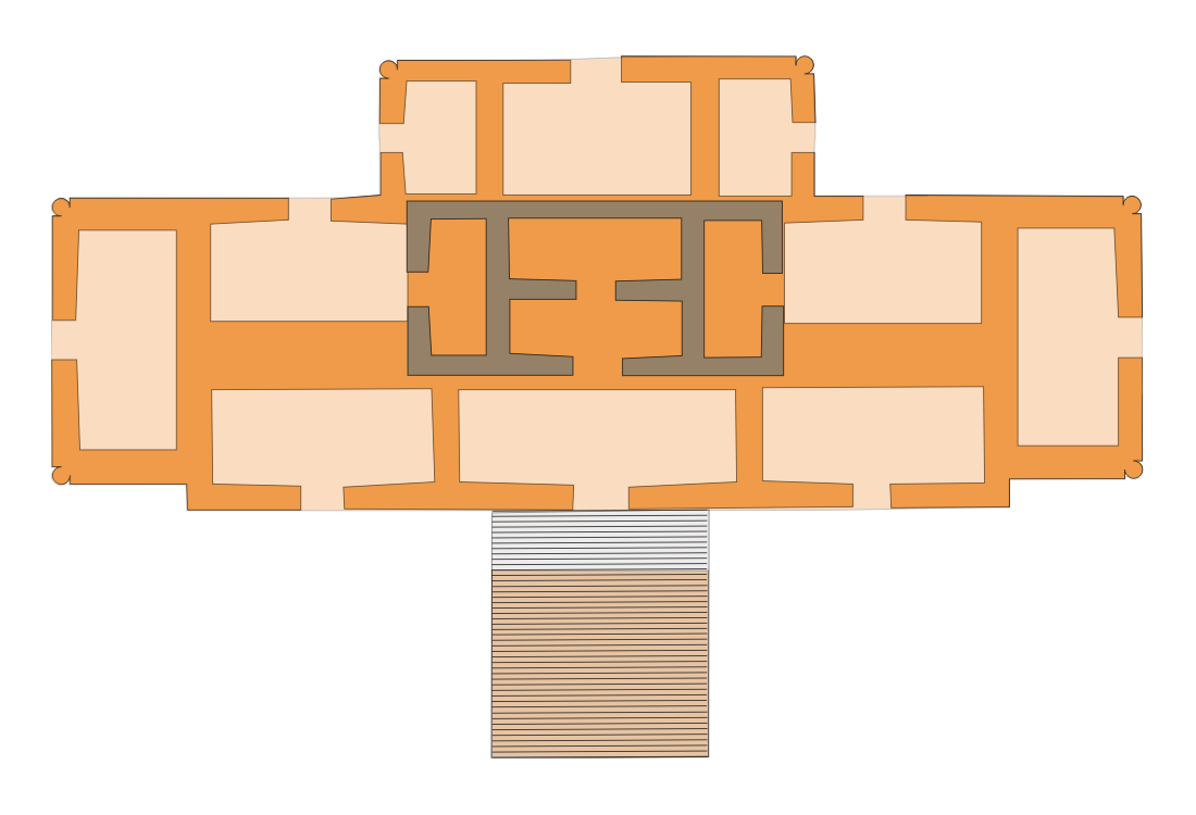 Xcanelcruz, outlier of Labna,Yucatan, Mexico. Plan of main building.